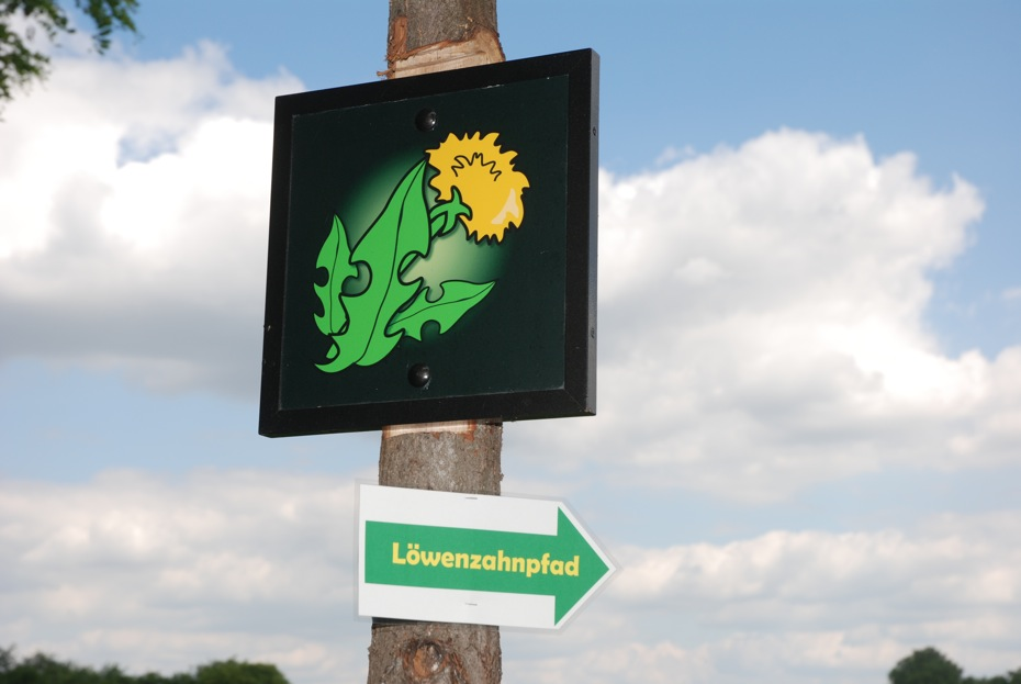 The picture shows a signpost to the "Löwenzahnpfad" in the nature reserve "Schönerlinder Teiche" in the north of Berlin.